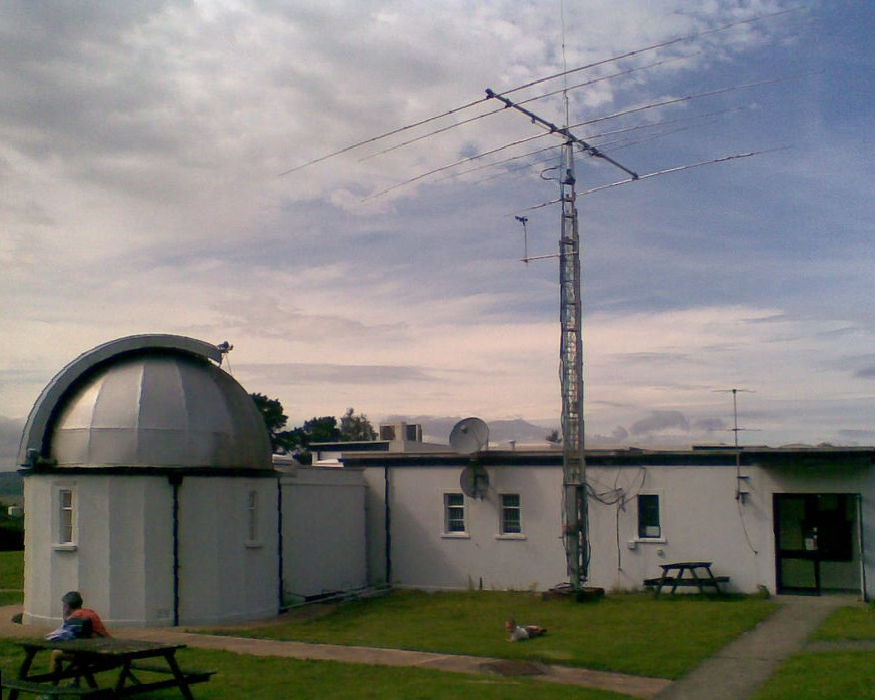 Norman Lockyer Observatory and James Lockyer Planetarium Salcombe Hill Road, Sidmouth, Devon, United Kingdom EX10 0NY